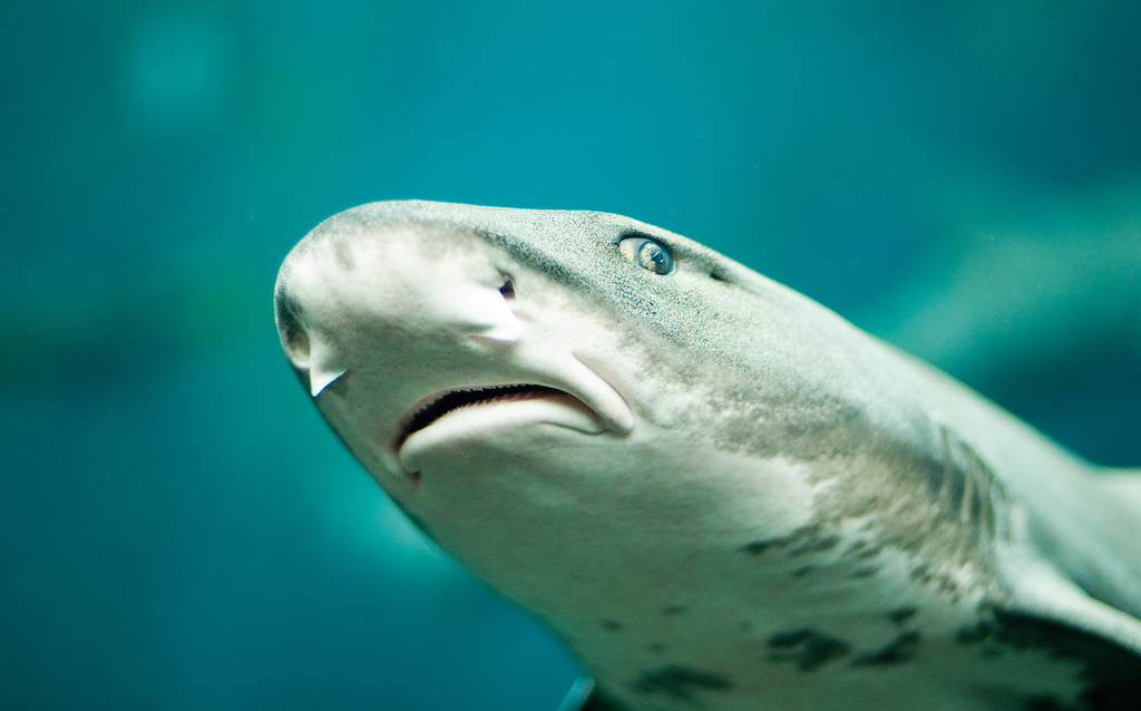 Head of a leopard shark (Triakis semifasciata) at the Monterey Bay Aquarium